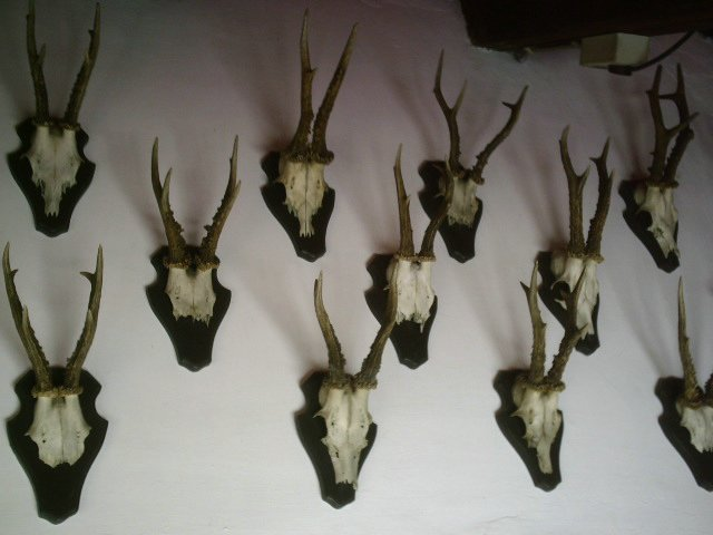 Reh Antlers from the Klettgau